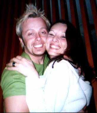 Anja Lukaseder with Bro´Sis-Member Ross Antony at 14.09.2004 in Hamburg